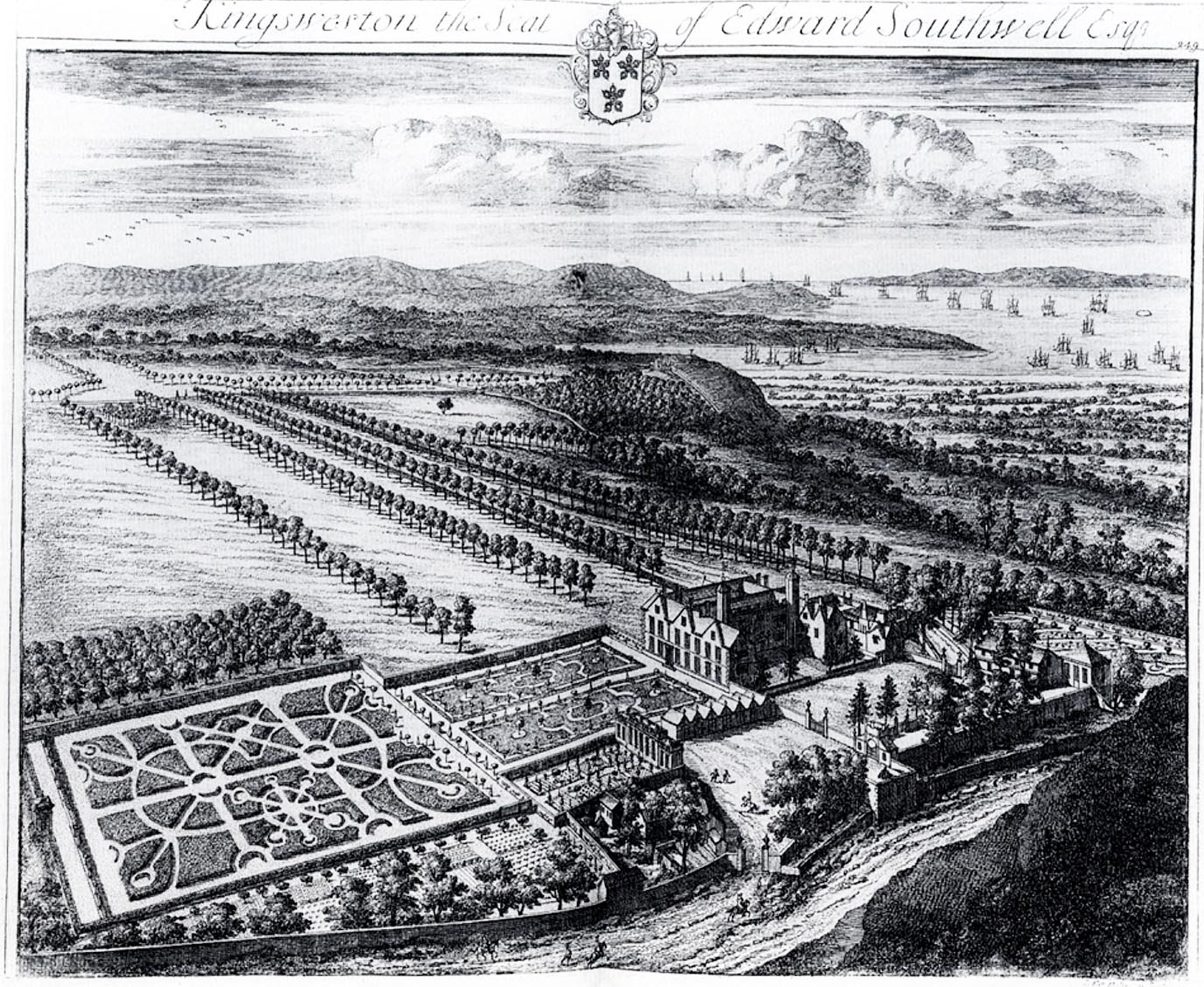 Birds-eye view of the Kingsweston estate from The Ancient and Present State of Glocestershire, first published 1710